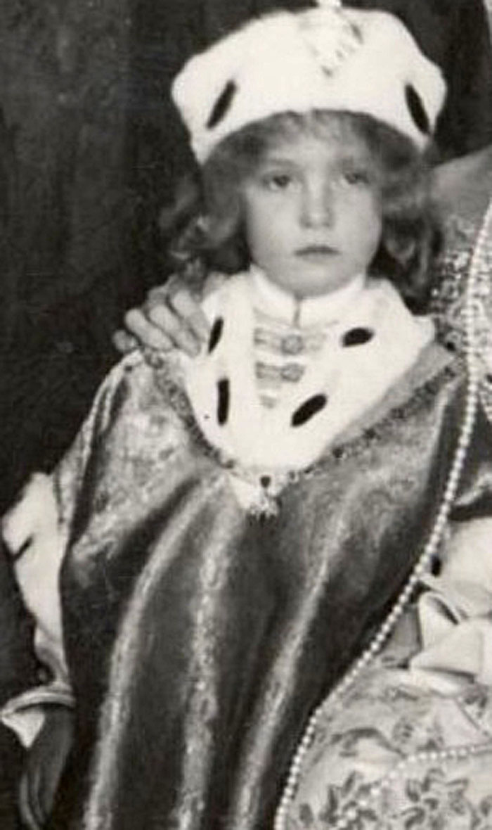 crown prince Otto of Austria and Hungary, in Budapest.